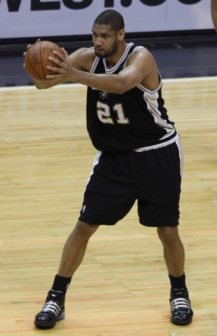 Tim Duncan, San Antonio Spurs, 2009